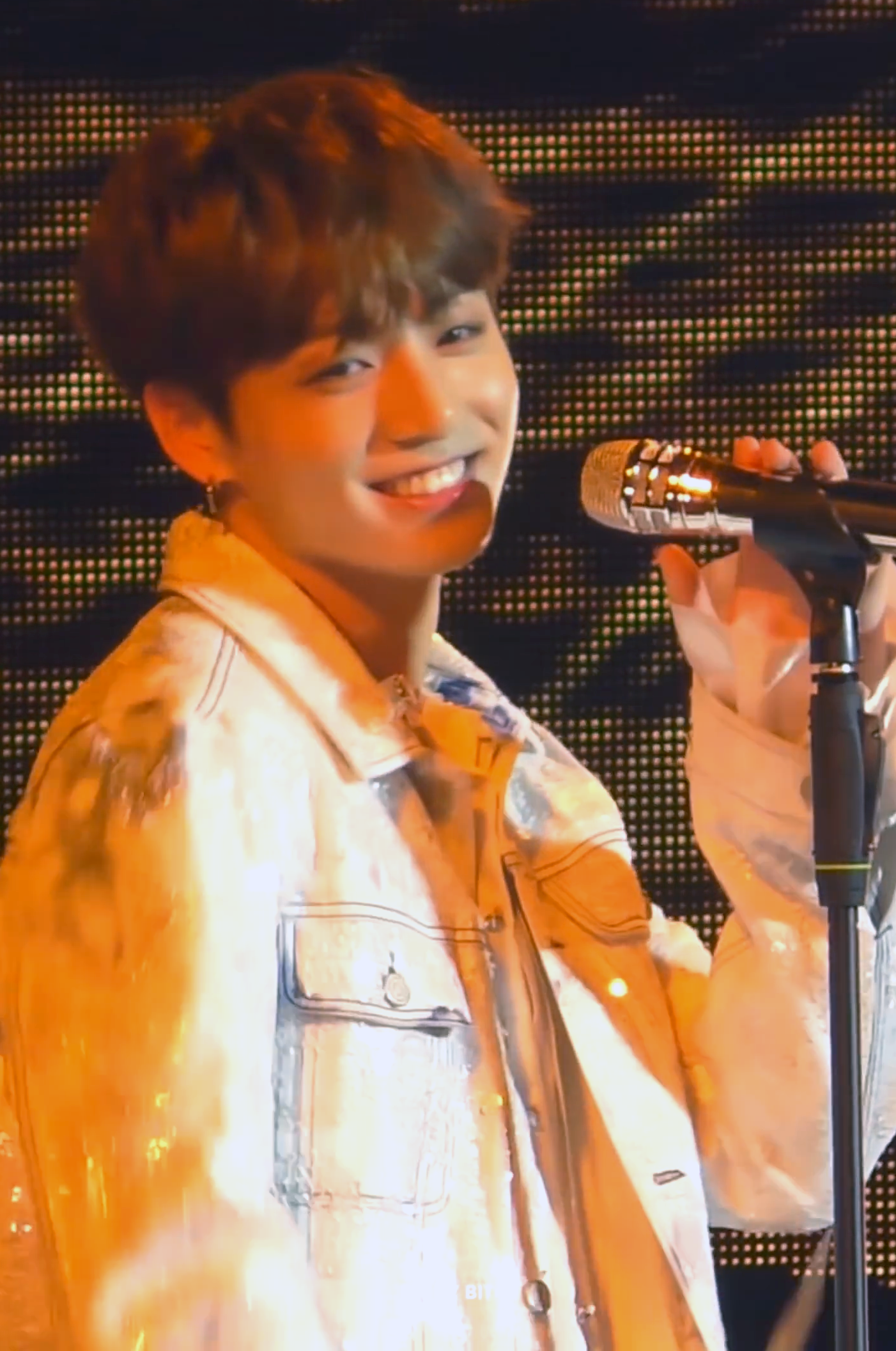 Jungkook performing the song "Euphoria" during the BTS World Tour: Love Yourself at the Mercedes-Benz Arena in Berlin, 16 October 2018